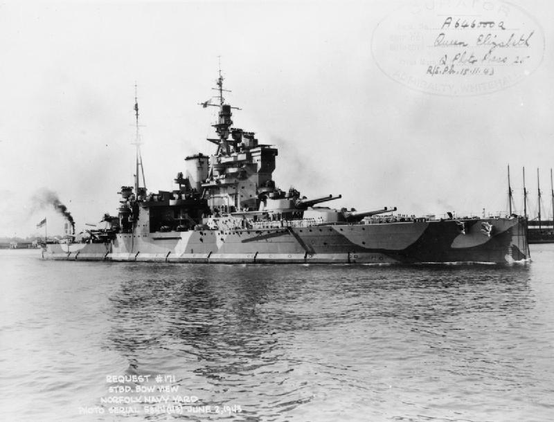 HMS Queen Elizabeth Underway at Norfolk Navy Yard, Virginia, USA.